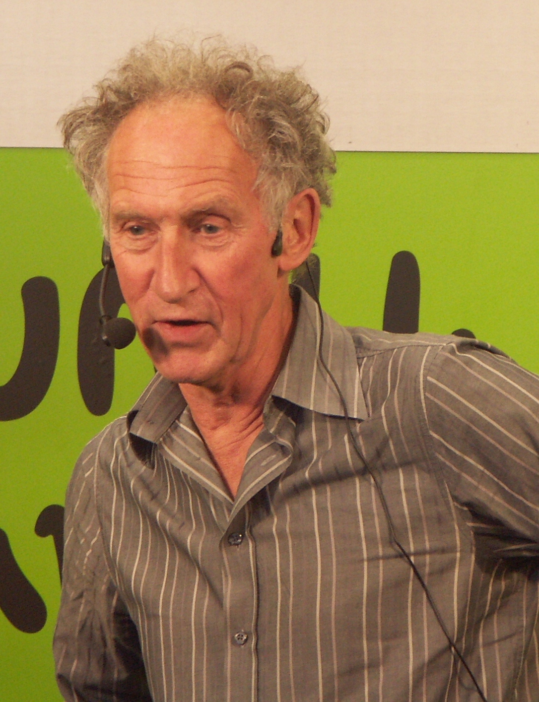 Swedish antiques expert Peter Pluntky at the 2009 Gothenburg bookfair.